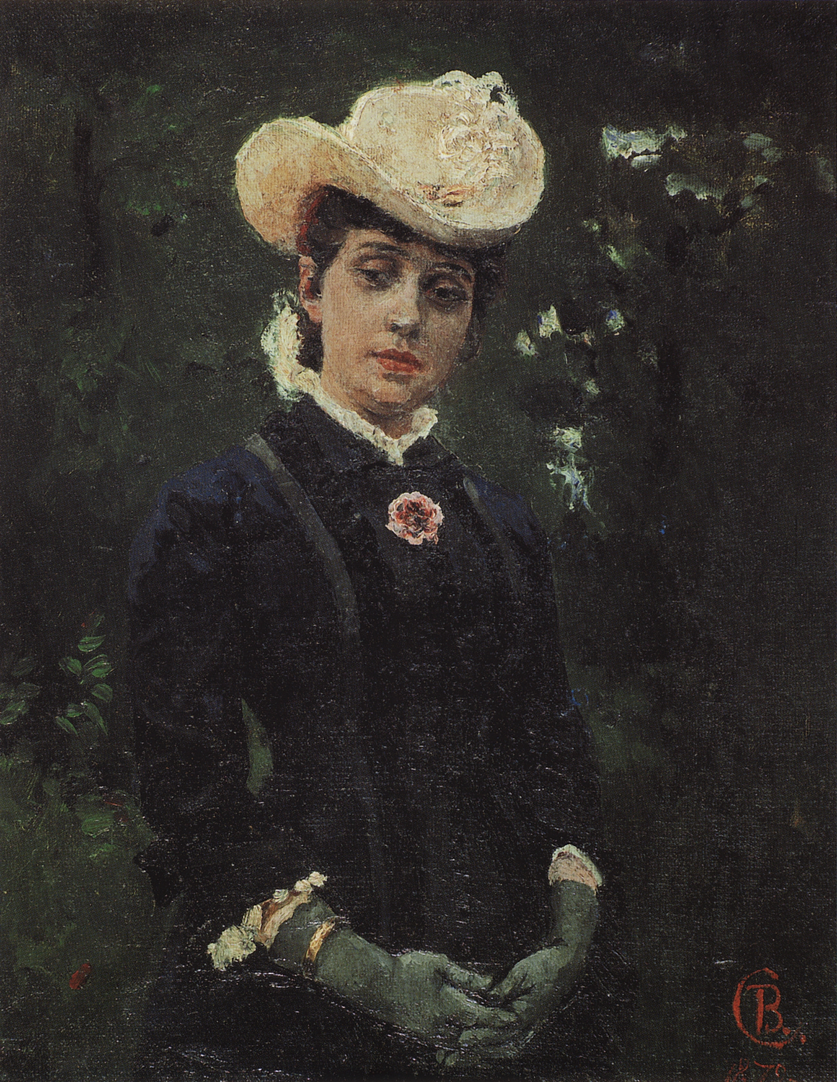 Portrait of Elena Kornilievna Deryagina (painting by Vasily Surikov, 1879)